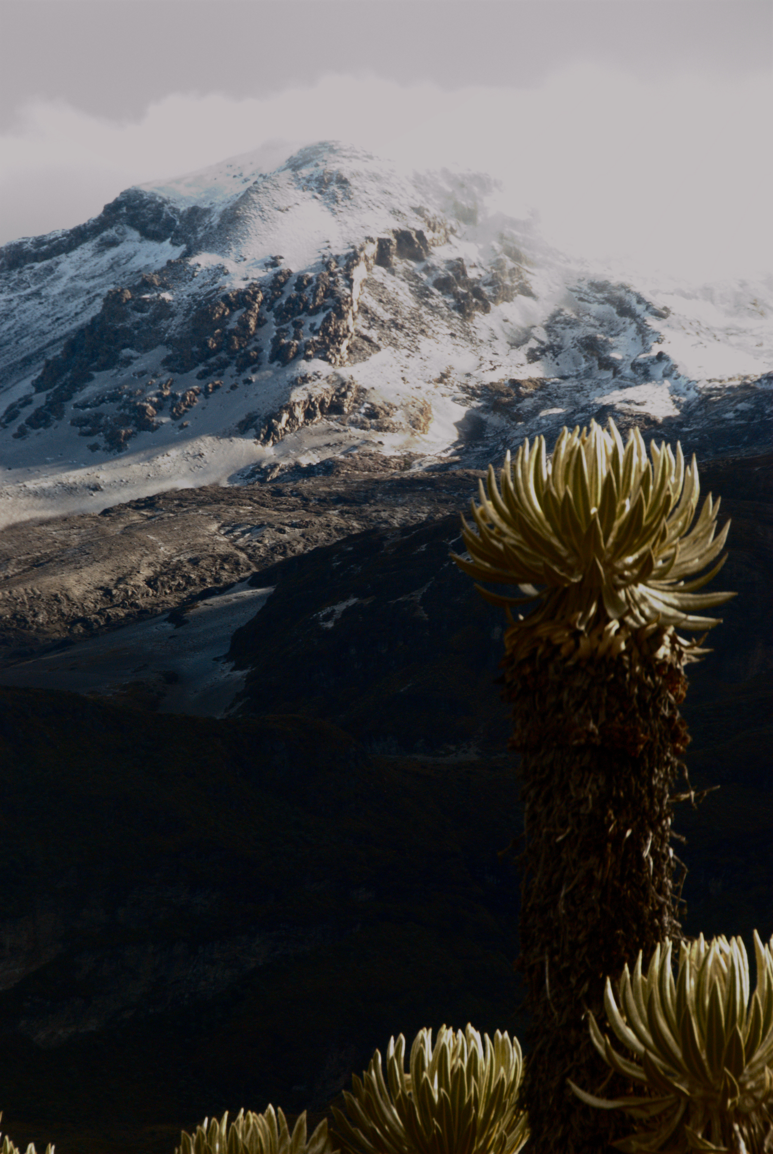 "Nevado del Ruiz" volcano and frailejones in the National Park "Los Nevados" in Colombia